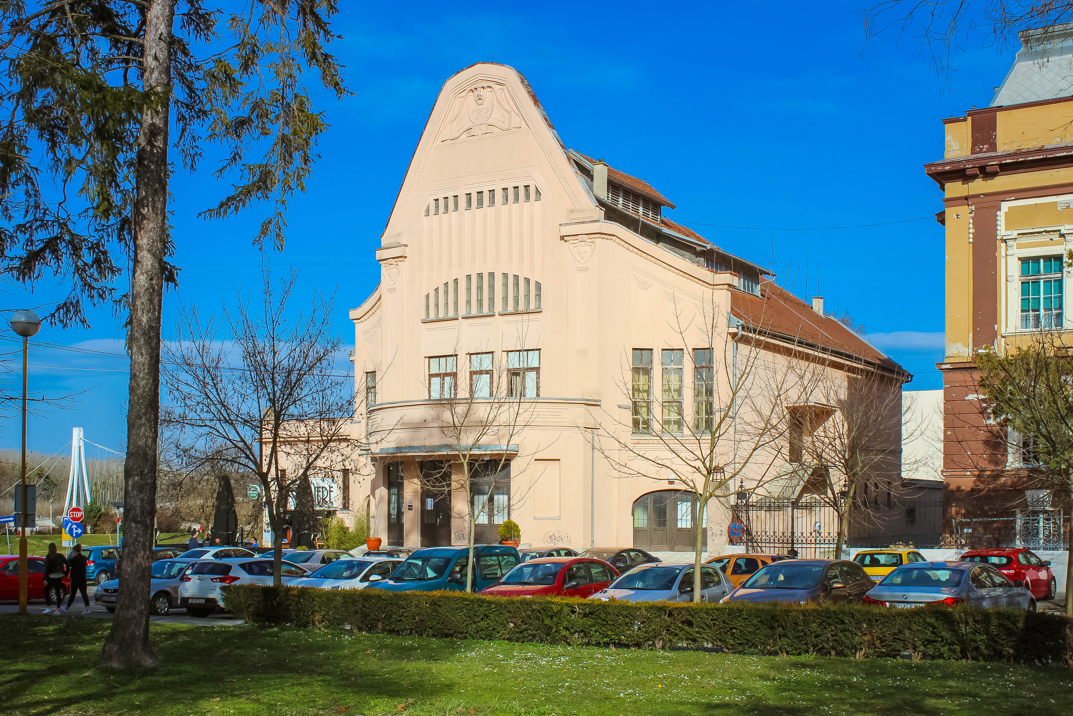 Cinema